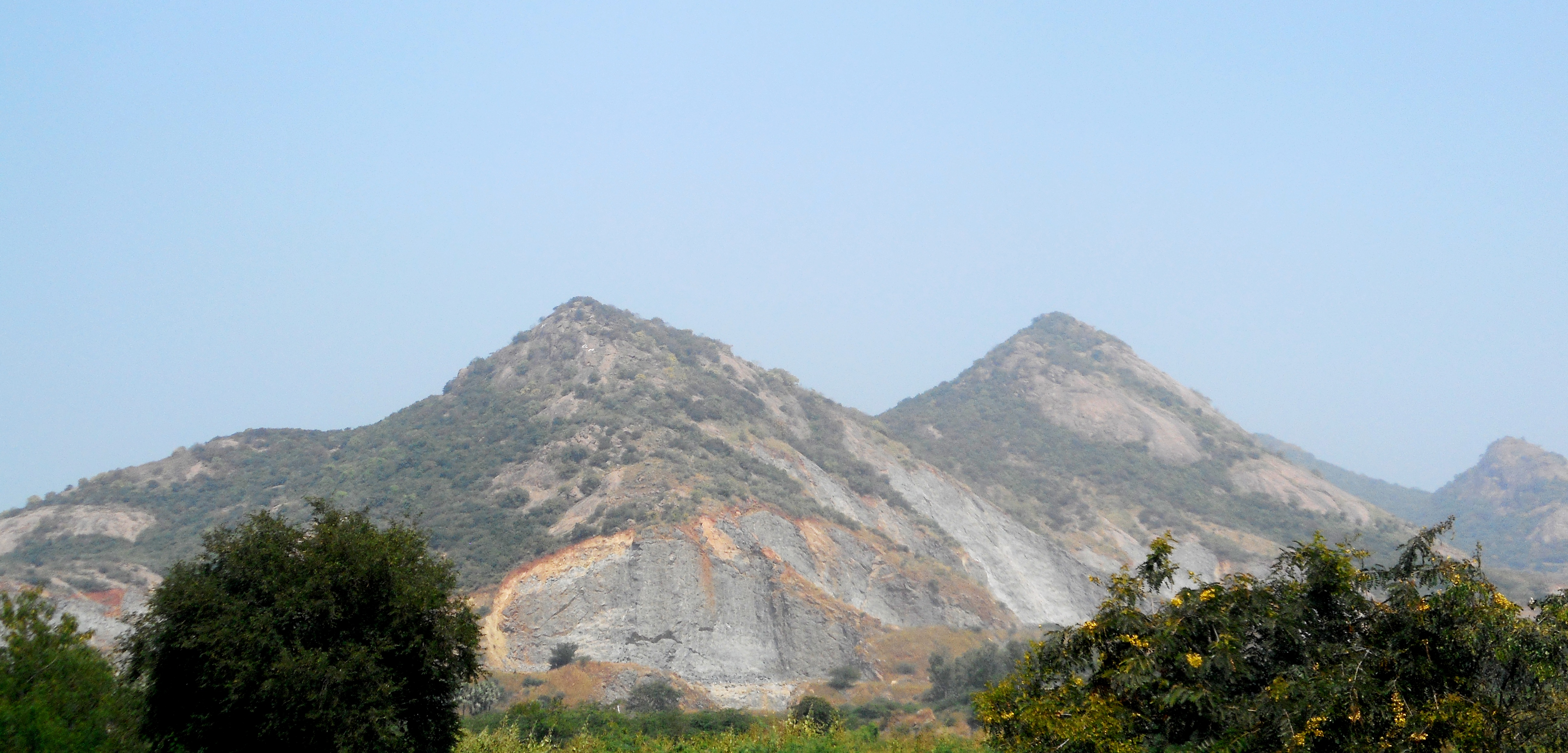 Hill site of Quarrying activity near Kotikalapudi village, Ibrahimpatnam mandal of krishna district